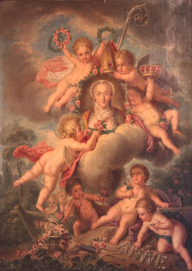 Anne_Charlotte_of_Lorraine_as_Abbess_of_Remiremont; painting by Bernard Verschooten in the musée Charles de Bruyères à Remiremont